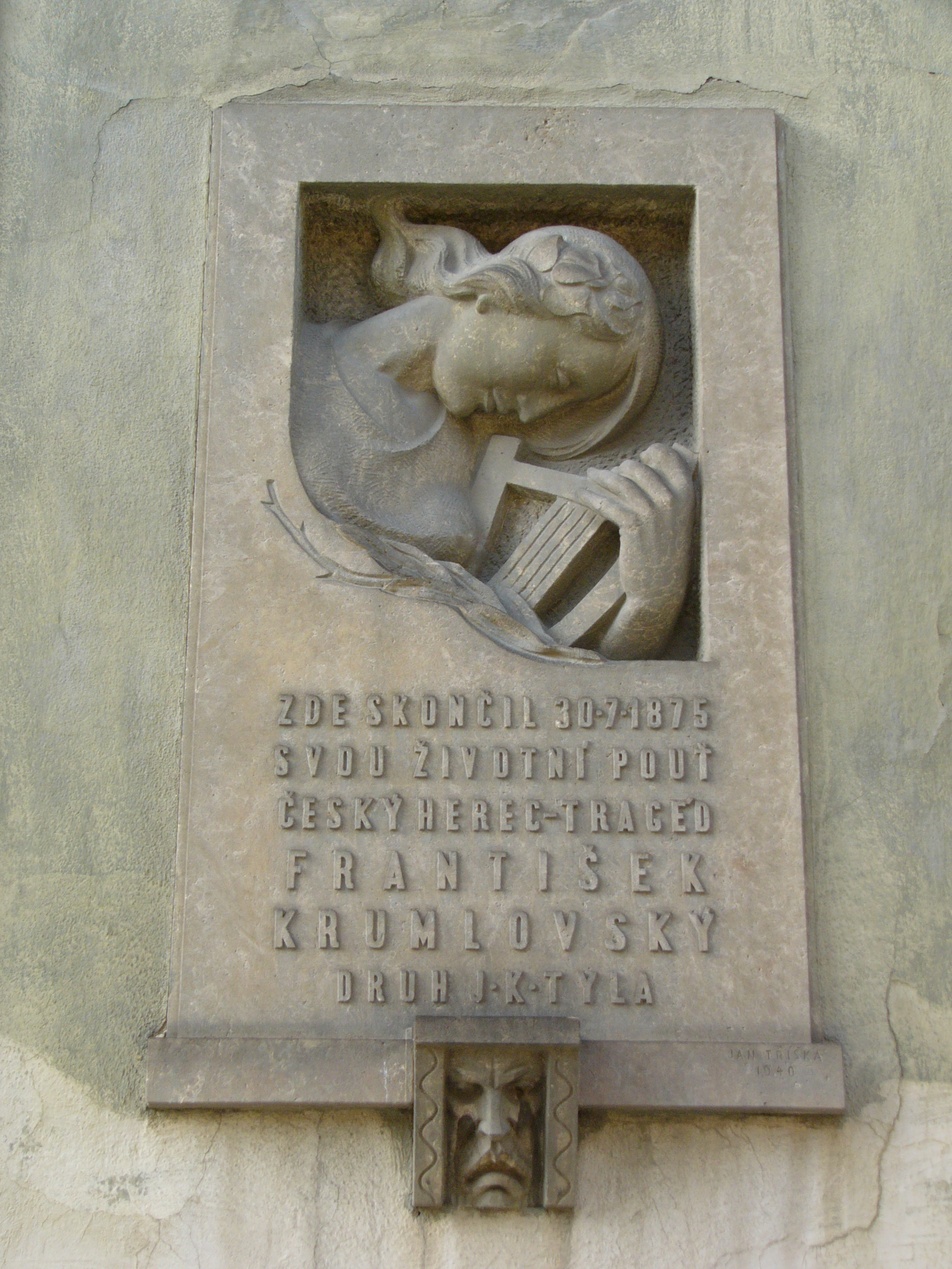 Memorial plaque to František Krumlovský in Svatoplukova street in Prostějov. The plaque was made by sculptor Jan Tříska and the plaque revealed on December 29, 1940.